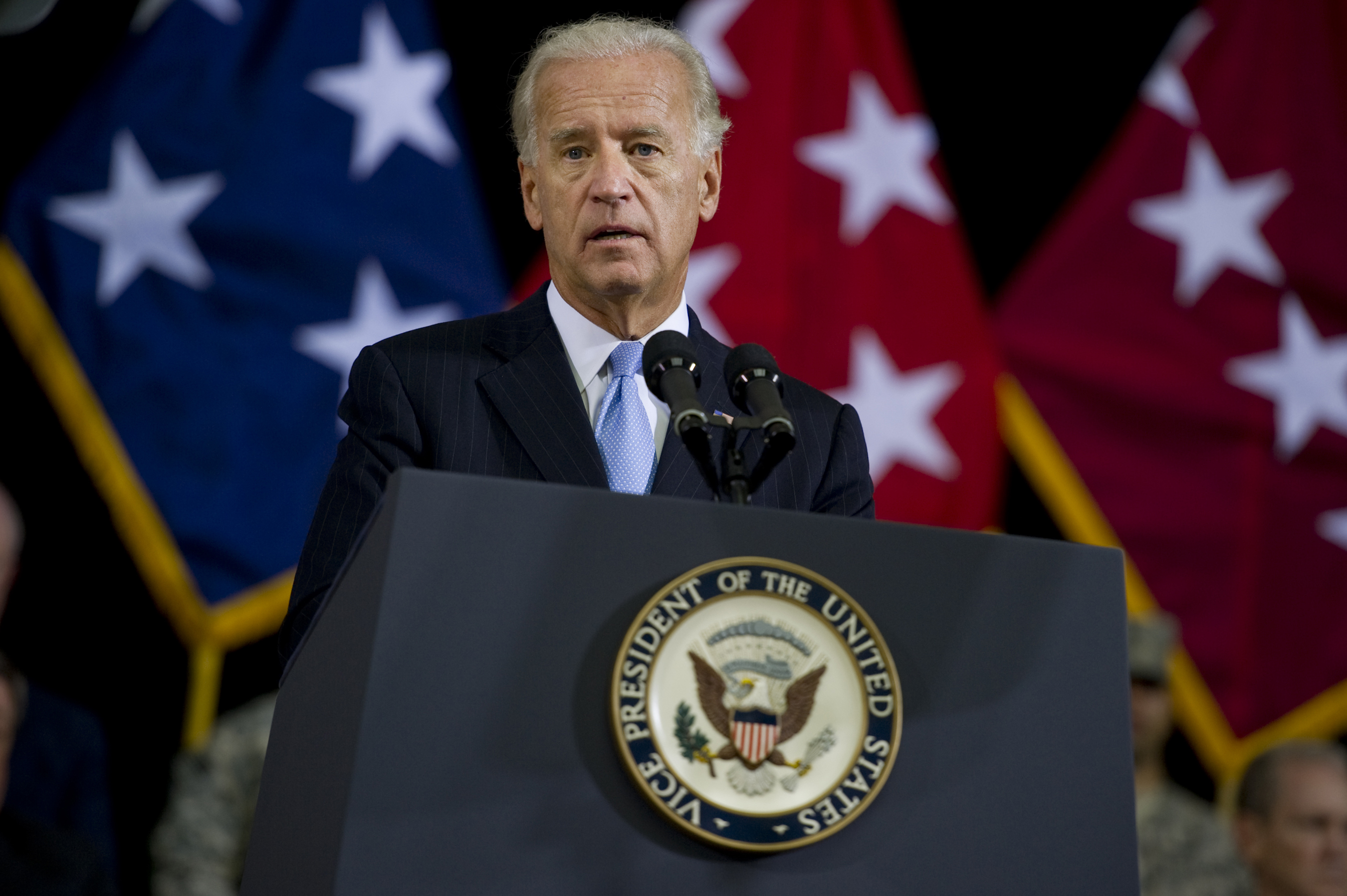 U.S. Vice President Joe Biden speaks at a U.S. Forces-Iraq change of command ceremony in Baghdad, Iraq, Sept. 1, 2010. Army Gen. Lloyd Austin III relieved Gen. Raymond T. Odierno in command of the remaining forces in Iraq, marking the end of U.S. combat operations in the country.